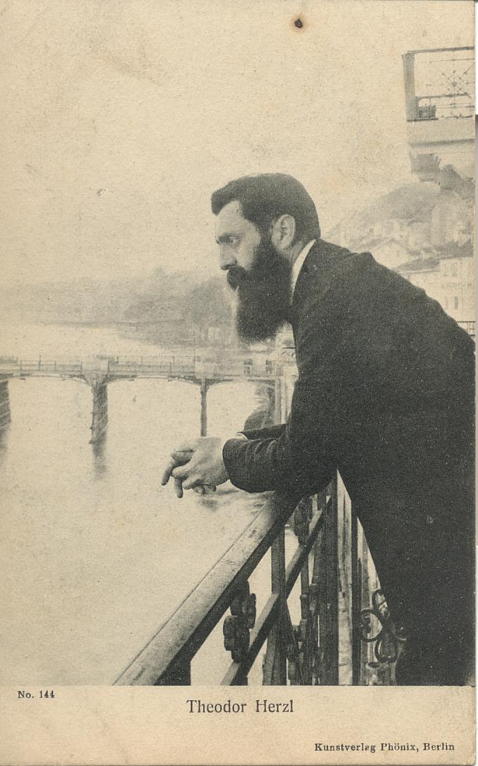 Theodor Herzl observing the Rhine from the balcony of Hotel Les Trois Rois during the Fifth Zionist Congress in 1901 in Basel.